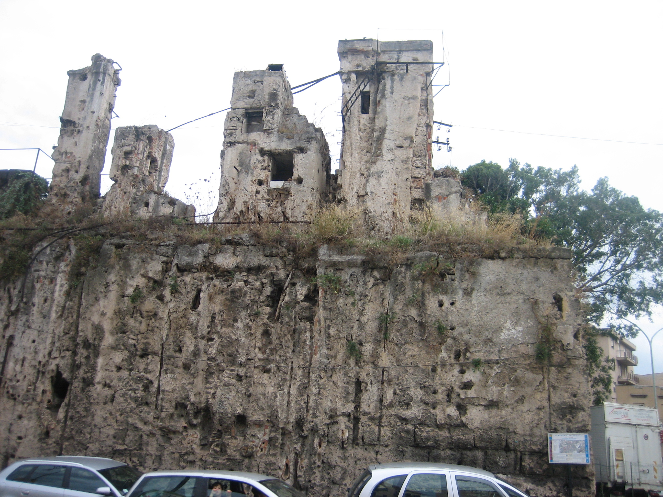 Porta Montalto, town gate of Palermo, constructed in 1638. Template:Porta Montalta